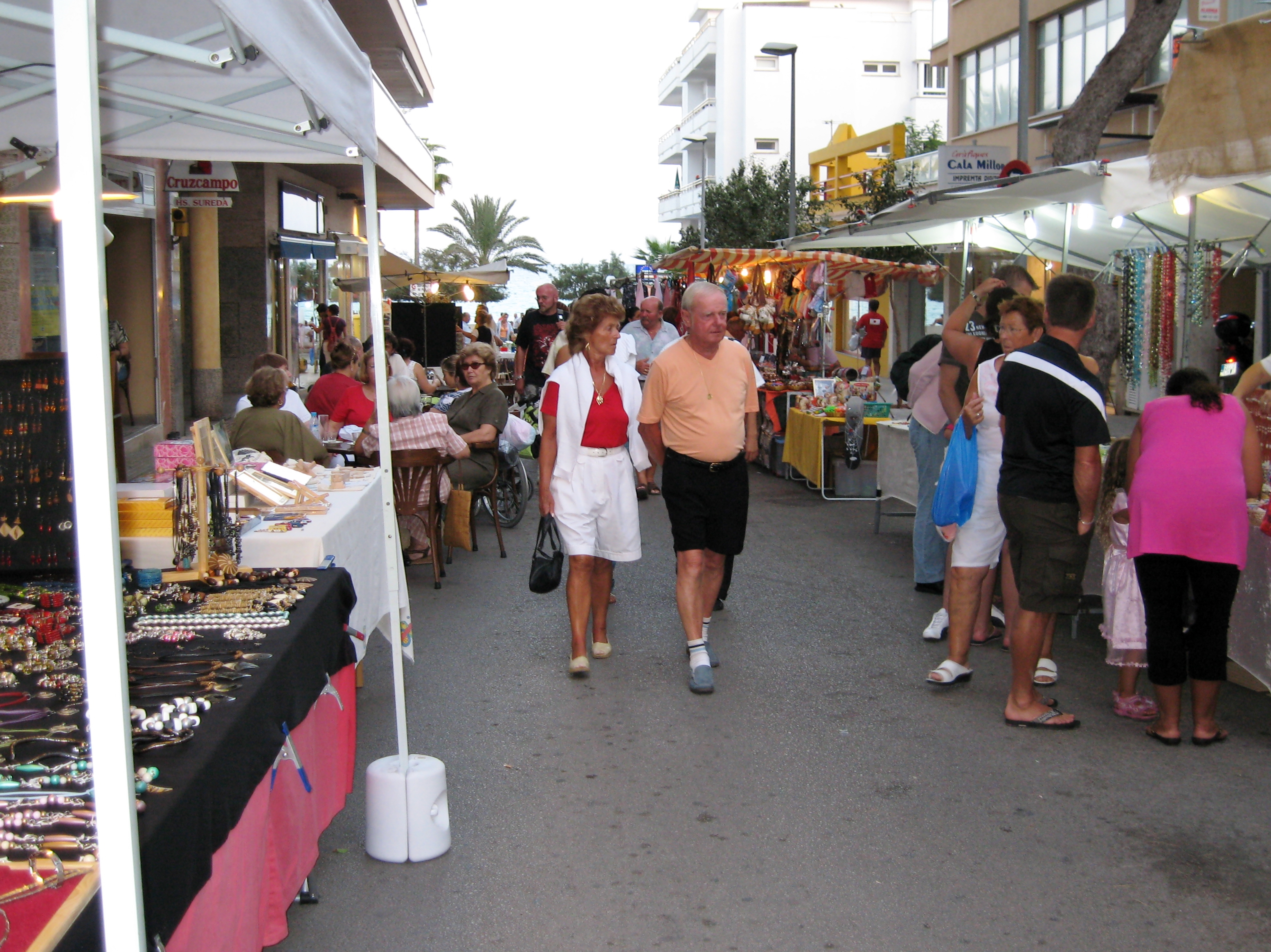 Market of Cala Millor (ca: Mercat de Cala Millor / de: Markt in Cala Millor), Son Servera, Mallorca, Spain